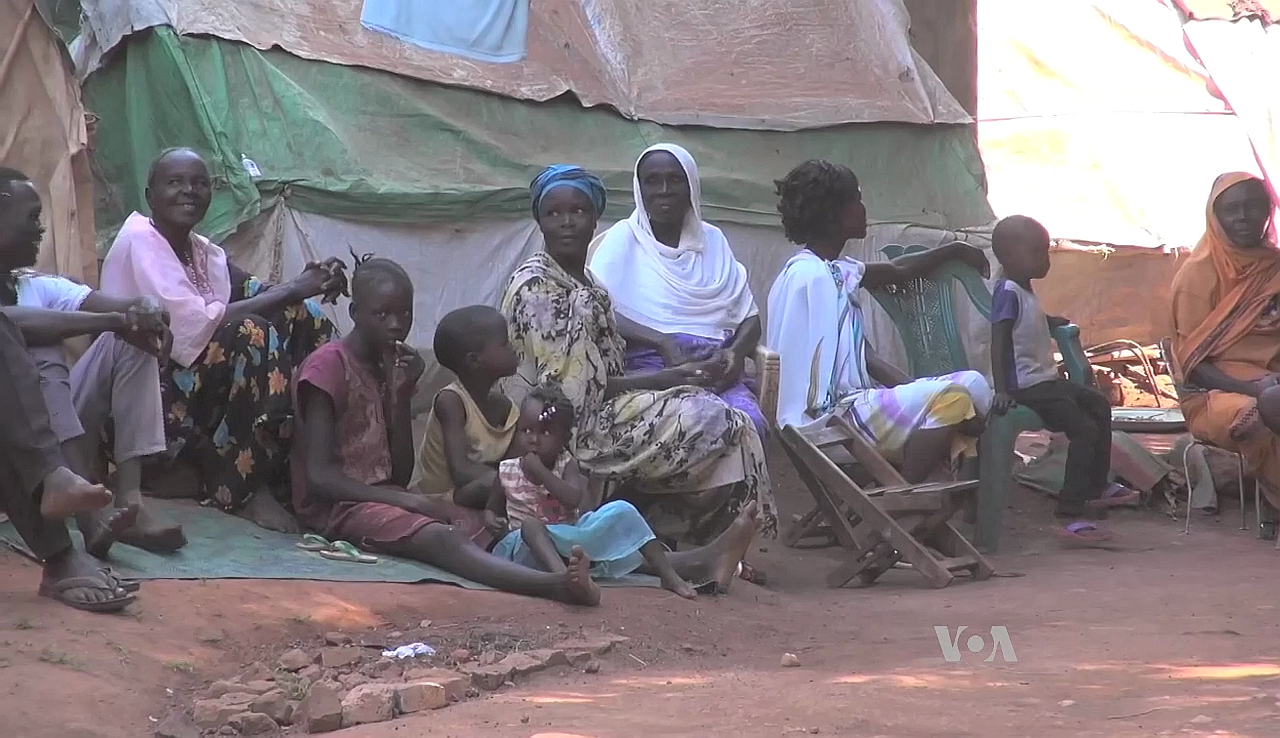 Refugee camp at the St. Mary Help of Christians Cathedral of Wau town.